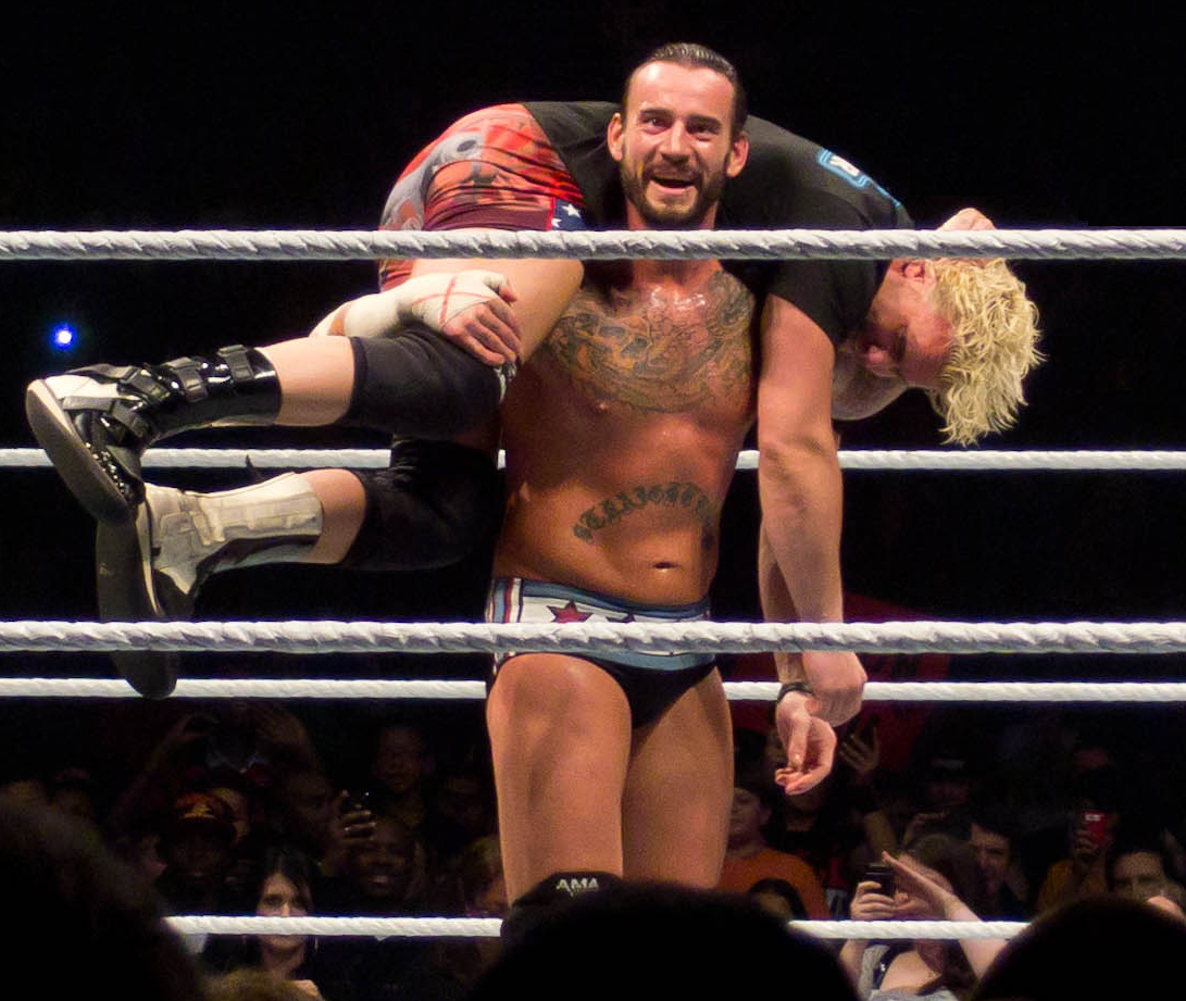 CM Punk soaks in cheers before giving Dolph Ziggler a "Happy Birthday" GTS. Taken November 11 during the RAW World Tour in London, England.